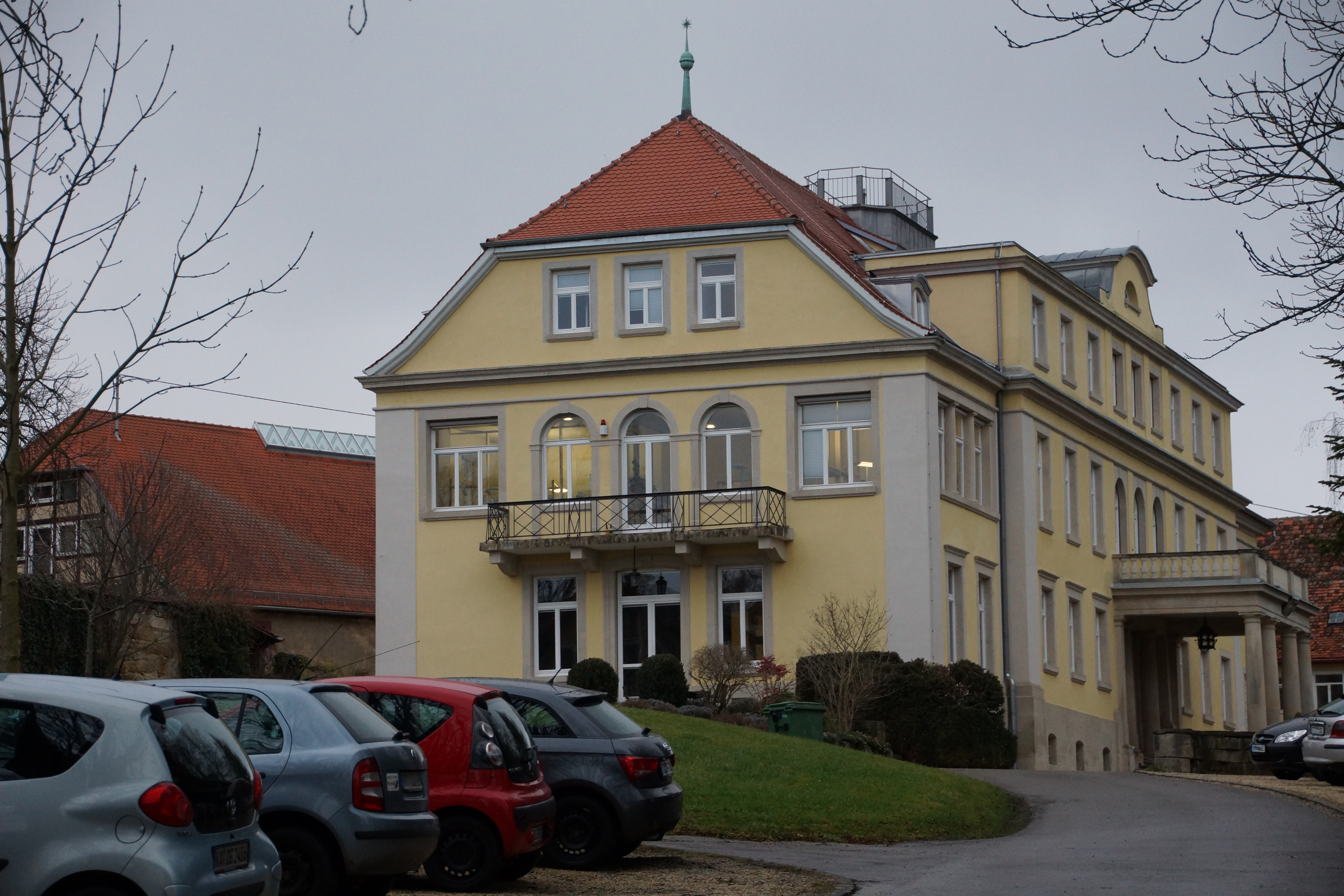 Kreßbach castle near Tübingen (Germany)